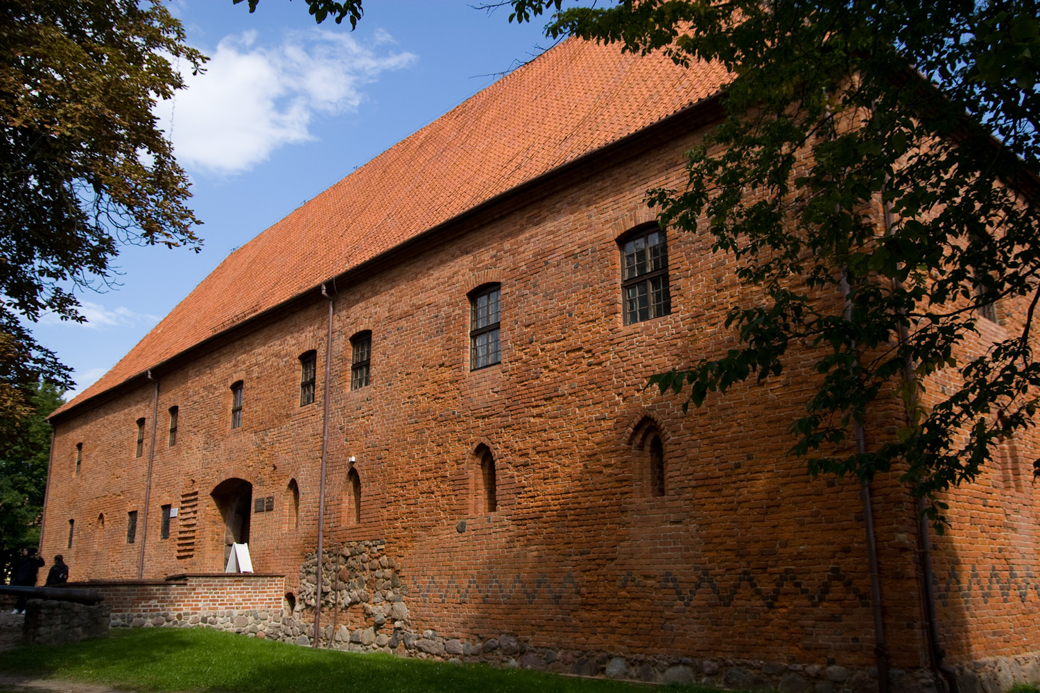 Ostroda Castle